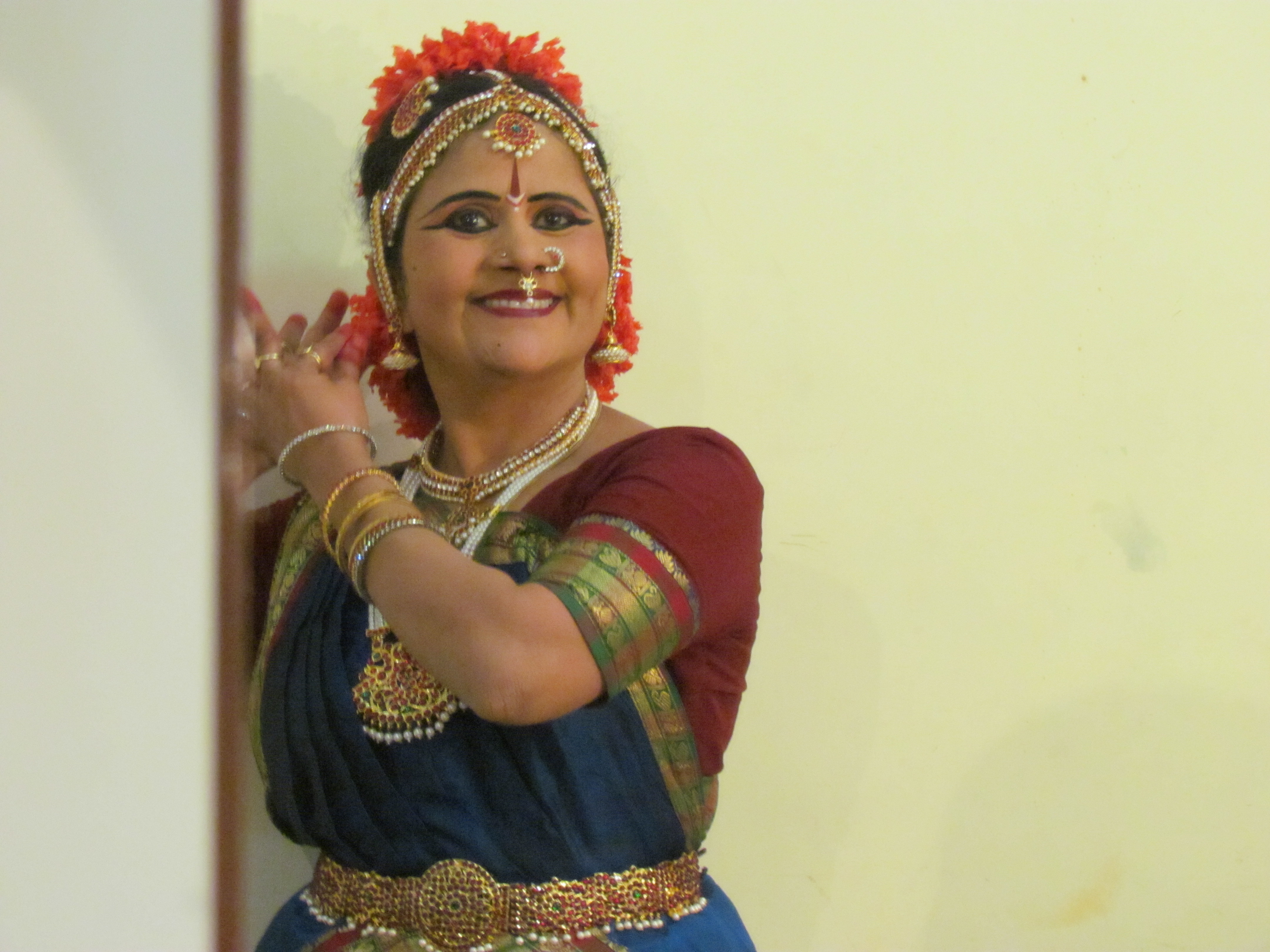 A Photo Of Subhashni Giridhar